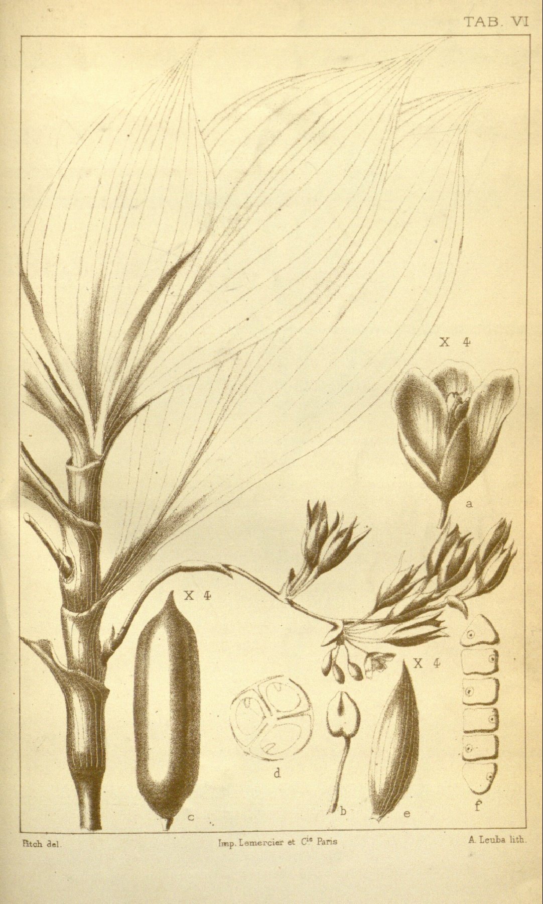 Illustration of Buforrestia mannii in the original publication of both the genus and species. a. Flower b. Stamen c. Capsule, dorsal viewl d. Capsule, horizontal section e. Sepals, enlarged after capsule growth f. Seeds and single locule capsule, dorsal view